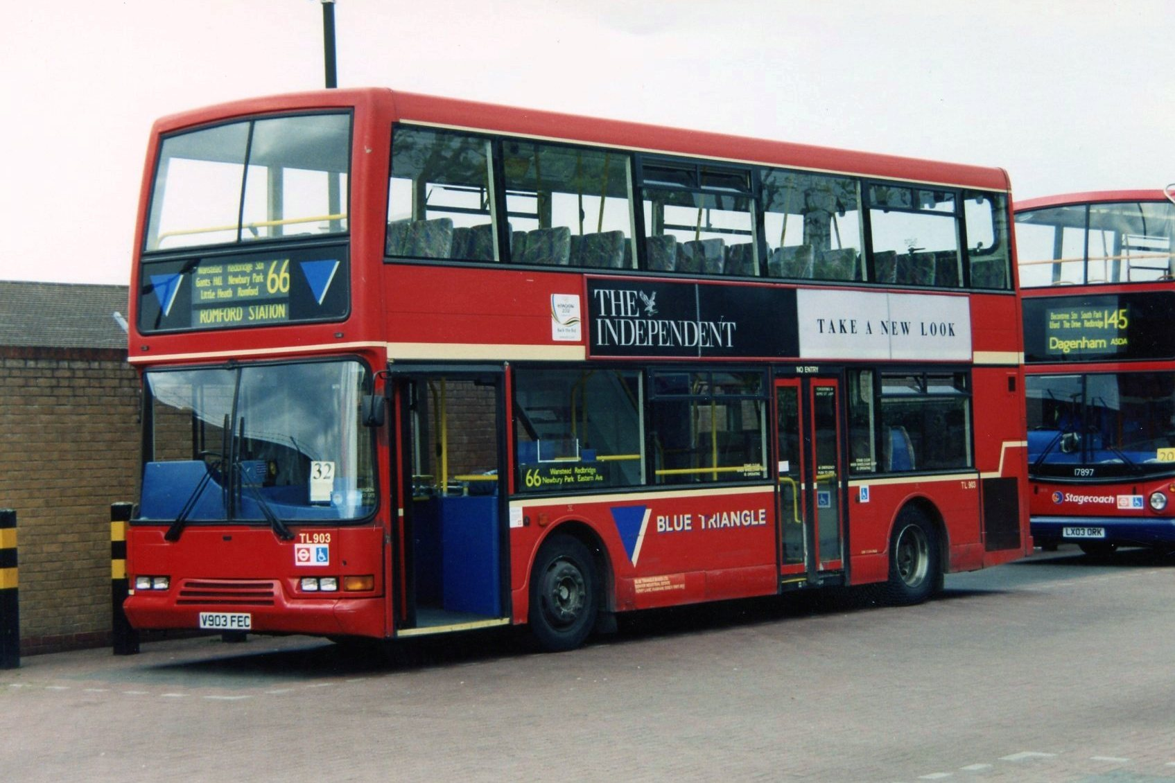 Blue Triangle TL903 (V903FEC), a Dennis Trident with East Lancs Lolyne body, at Leytonstone station in May 2005. It is unusually operating on route 66, which was normally operated by single-deck Dennis Dart SLFs.